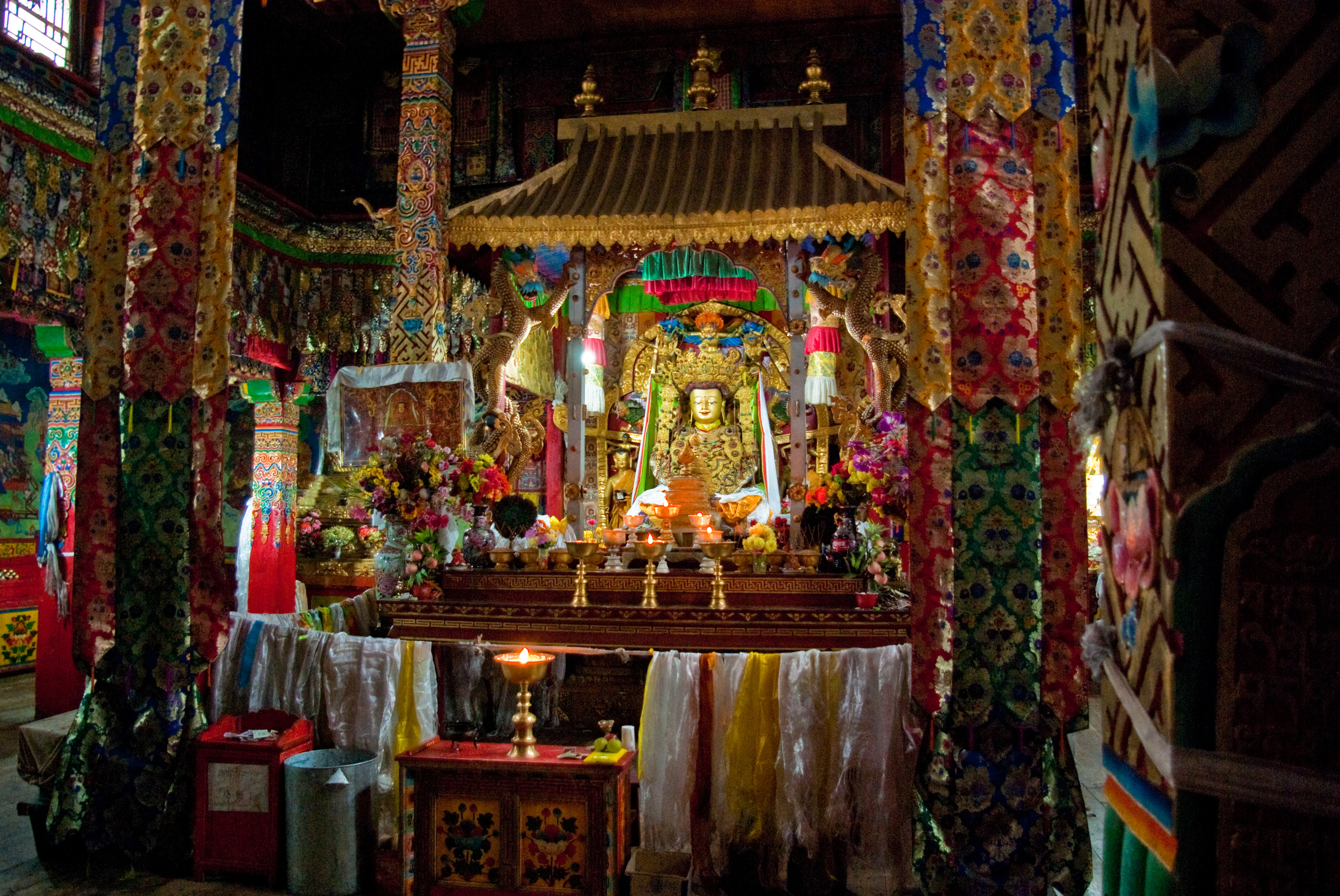 Litang Monastery